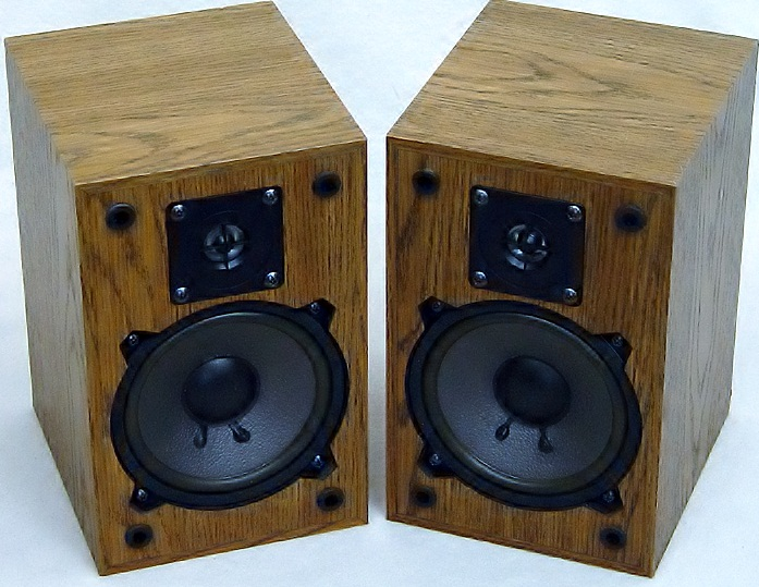 A pair of Altec Lansing bookshelf loudspeakers Other information A pair of loudspeakers